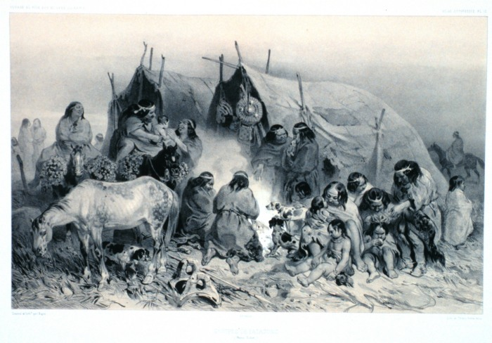 Groupes de Patagons, Detroit de Magellan. In: "Voyage au pole sud et dans l'Oceanie ....." by the French ships ASTROLABE and ZELEE under the command of Dumont D'Urville, 1842.